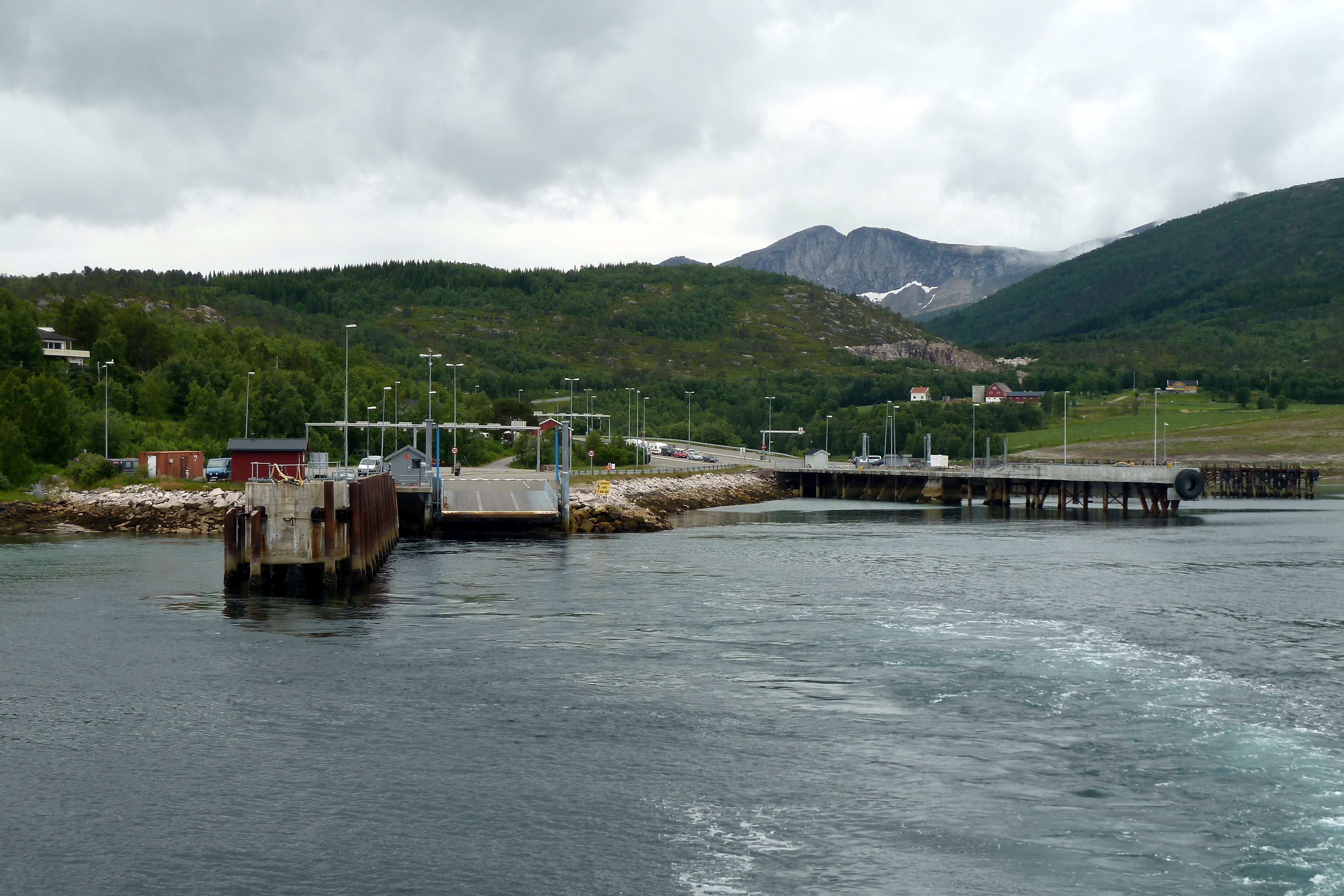 Bognes in Tysfjord, Norway. Europe Ferrycrossing at E6 and from E6 to E10.